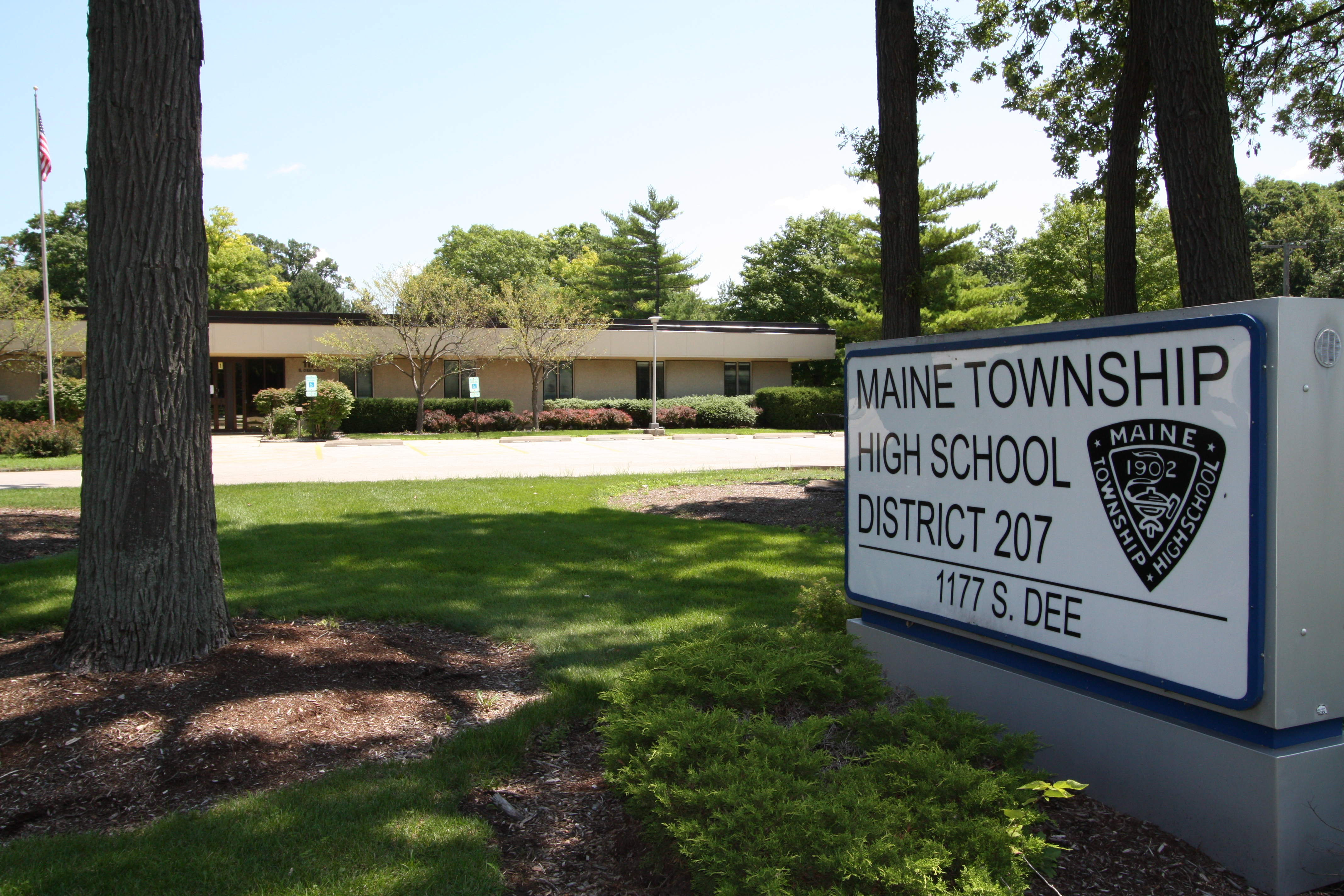 The administration building sign: Maine Township High School District 207 offices, Ralph J. Frost Administration Building